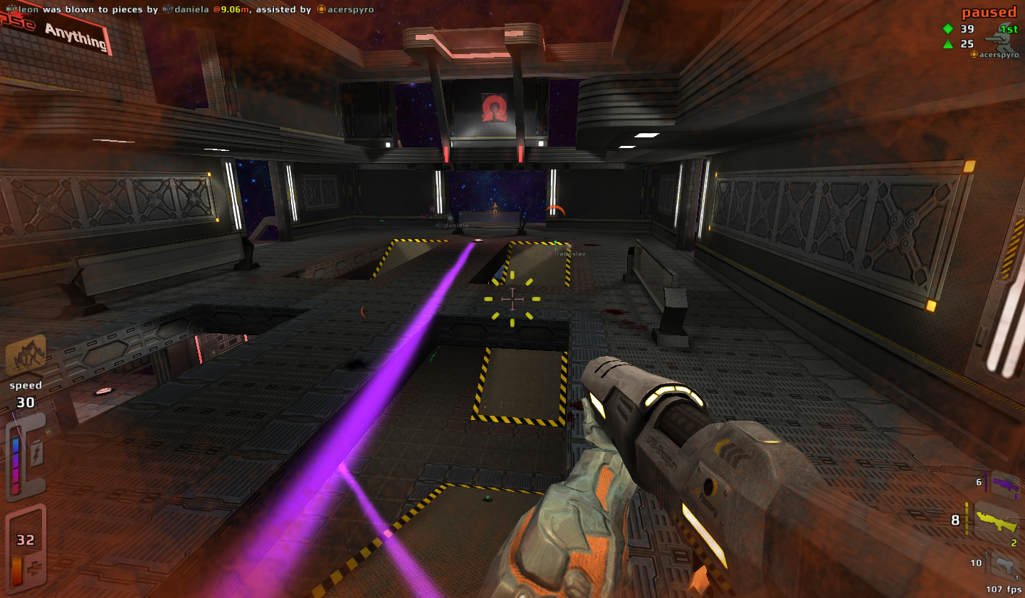 A screenshot showing the Red Eclipse gameplay, and its extremely flexible interface.